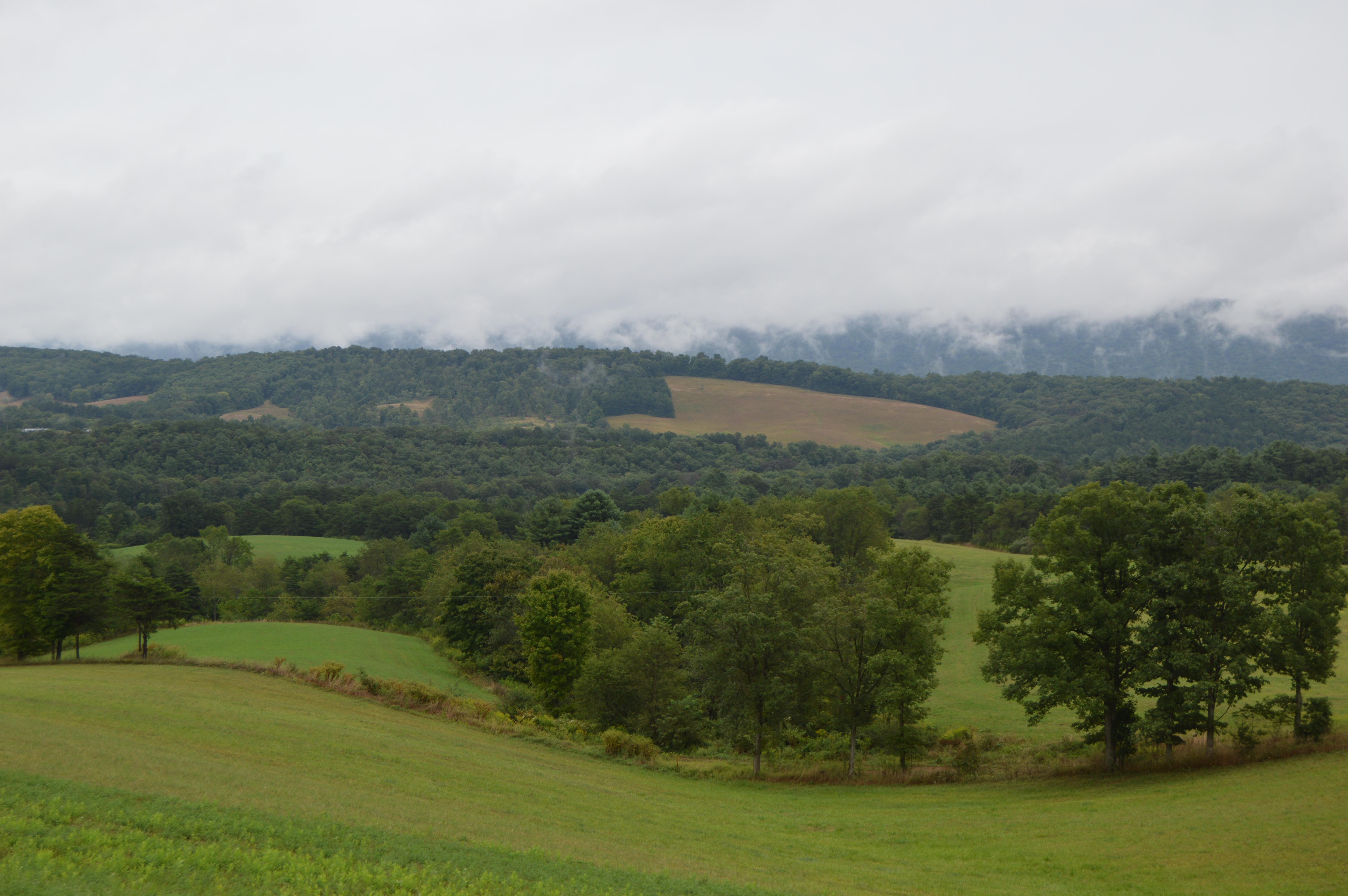 Looking east from Pennsylvania Route 26 over the Piney Creek valley in central Mann Township, Bedford County, Pennsylvania, United States, with Addison Ridge in the background.